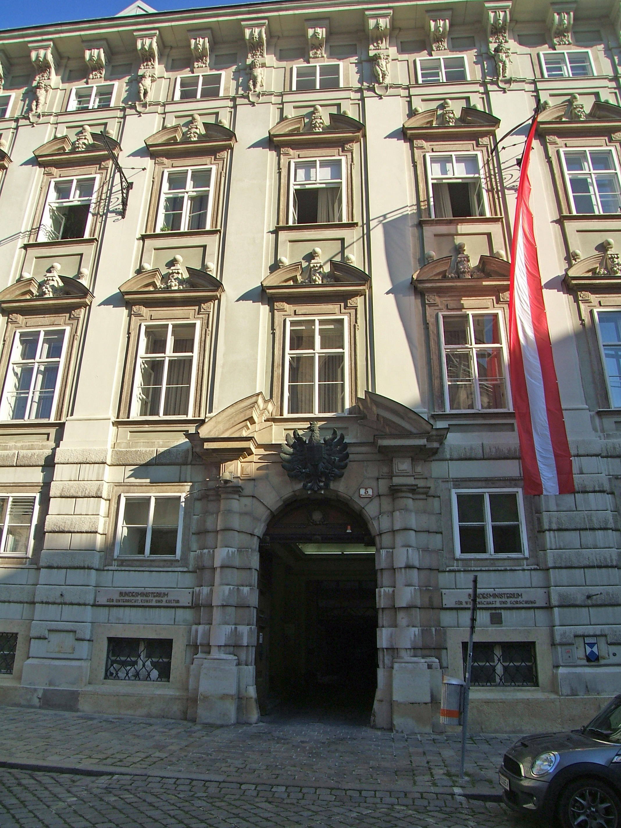 Palais Starhemberg in Vienna Minotitenplatz 5, Portal